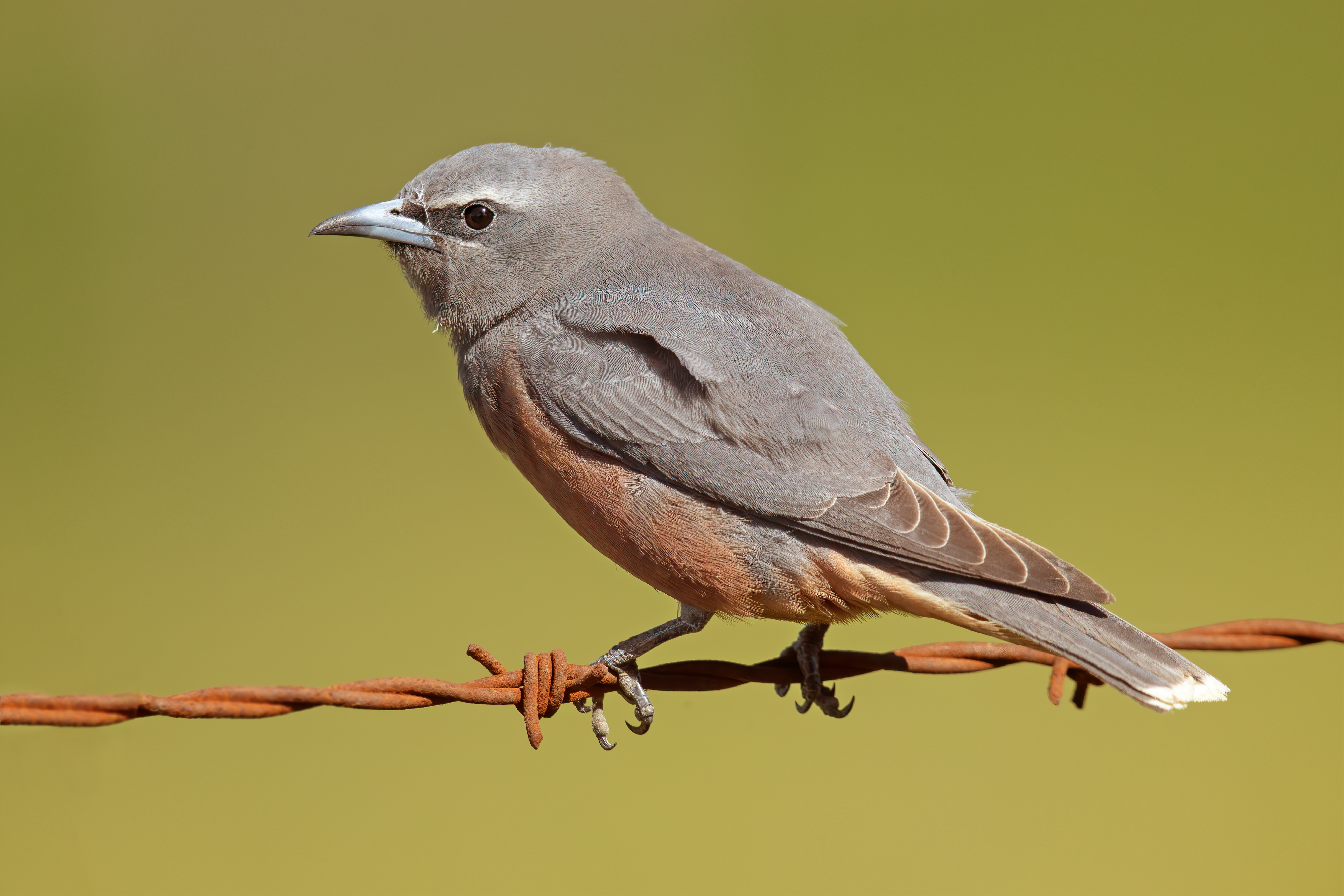 Female White-browed Woodswallow (Artamus superciliosus). Bushells Lagoon, Hawkesbury, New South Wales, Australia